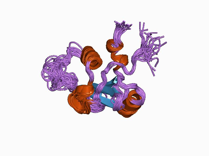 Cartoon representation of the molecular structure of protein registered with 1bfi code.